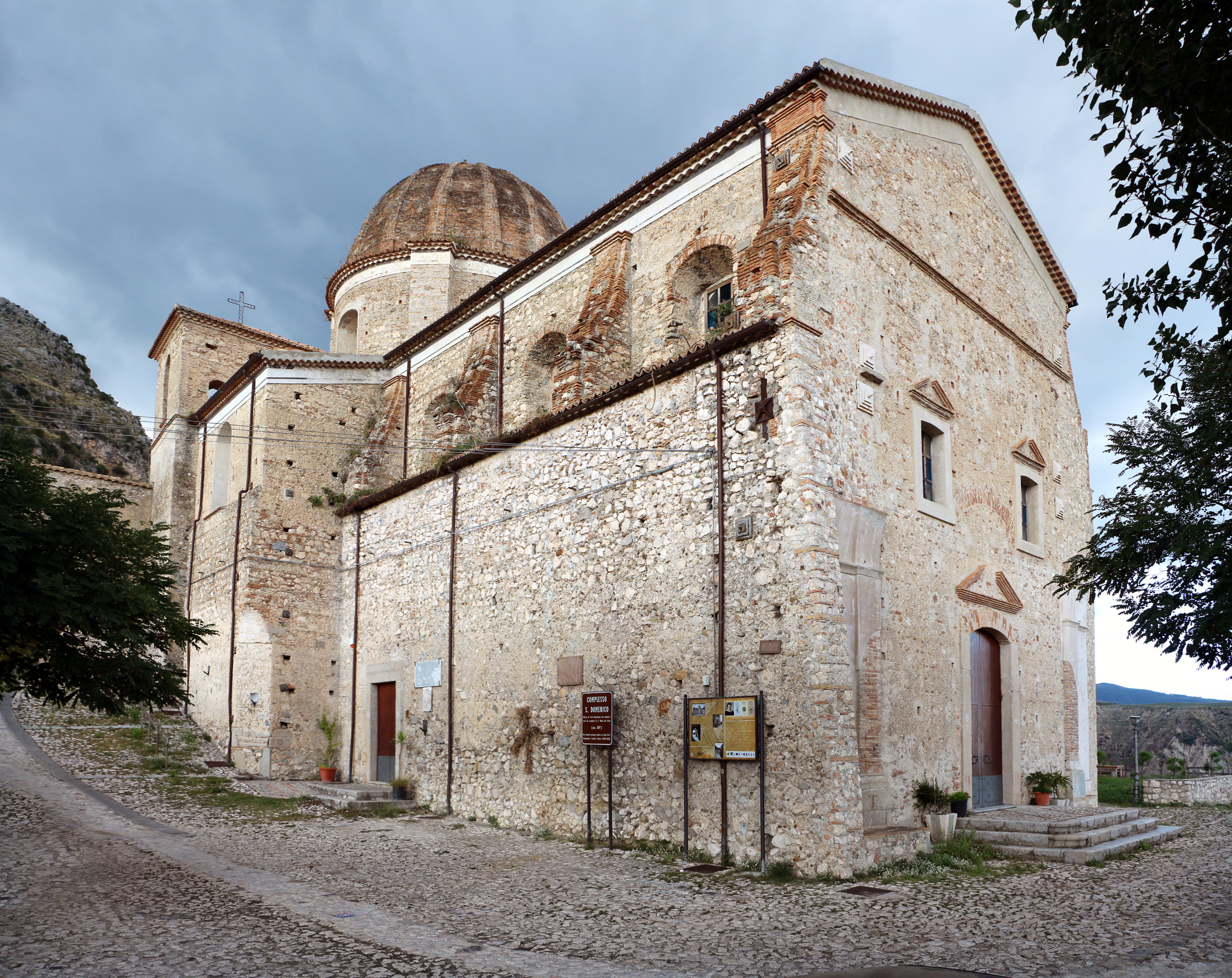 Buildings in Stilo